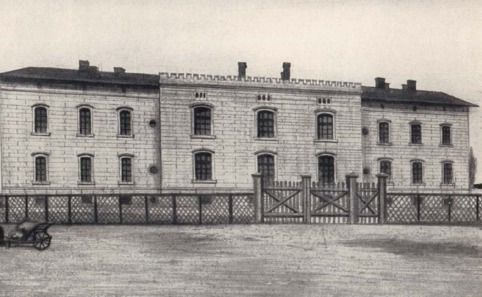 Hospital in town of Herford, District of Herford, North Rhine-Westphalia, Germany.